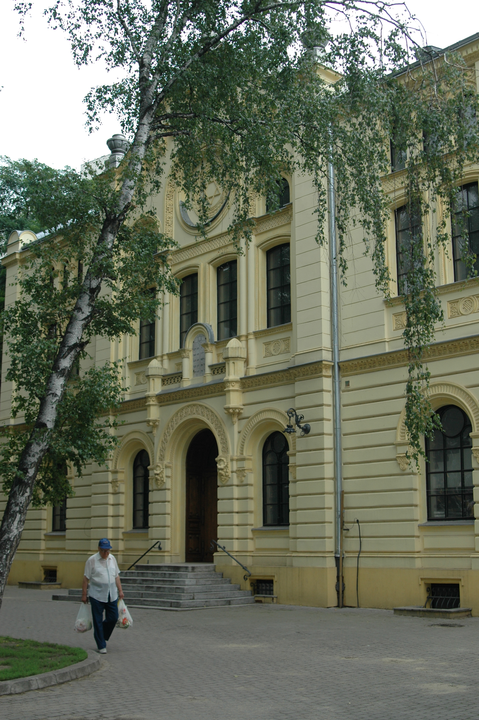 Zalman and Ryfka Nożyk Synagogue, Warsaw, Twarda Street